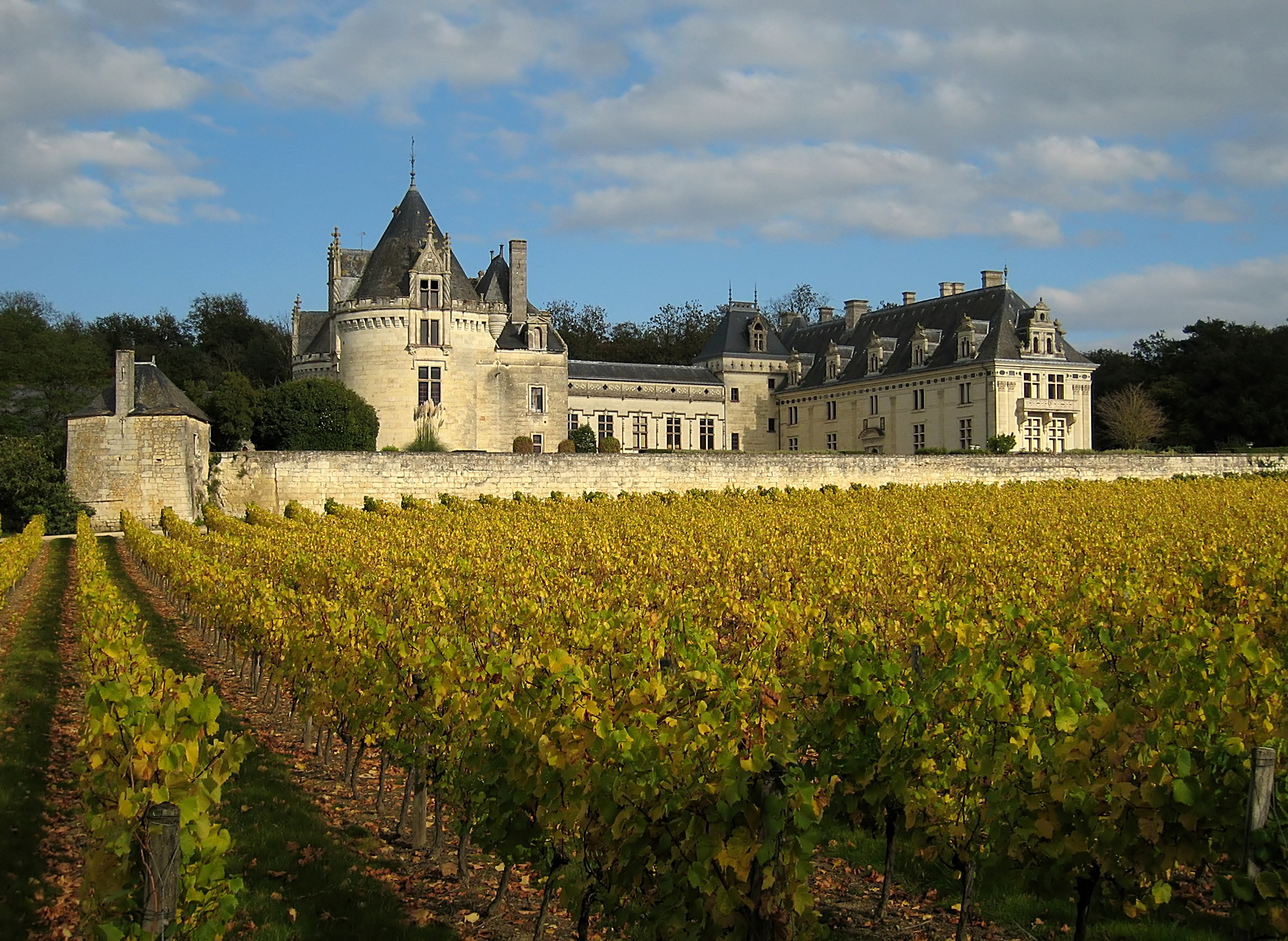 Castle Brézé, located in county of Maine-et-Loire/France.